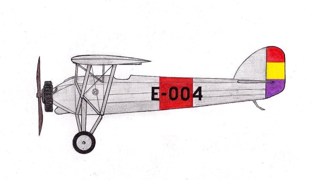 Pencil drawing of a Morane-Saulnier MS.181 of the Spanish Republican Air Force